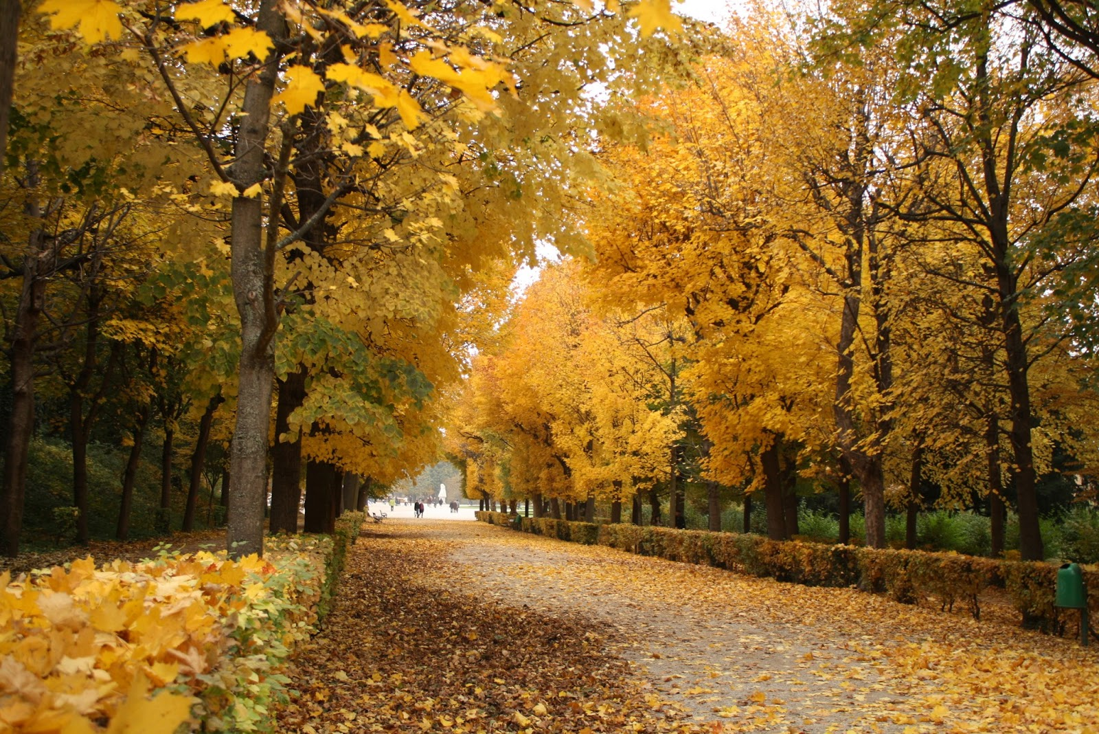 Schönbrunn Gardens in autumn